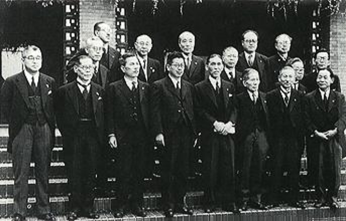 Japanese Prime Minister Tetsu Katayama (1887–1978, in office 1947–48) and the members of his cabinet